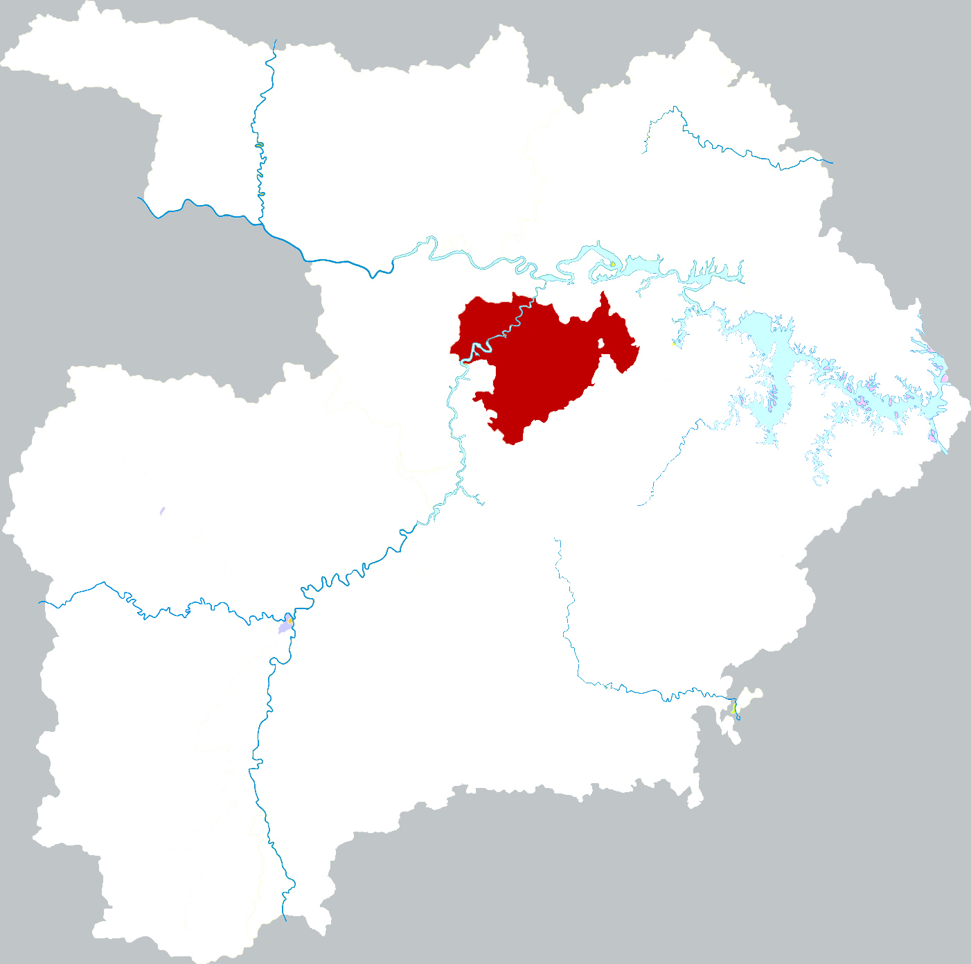 Location of Zhangwan district in Shiyan city, China